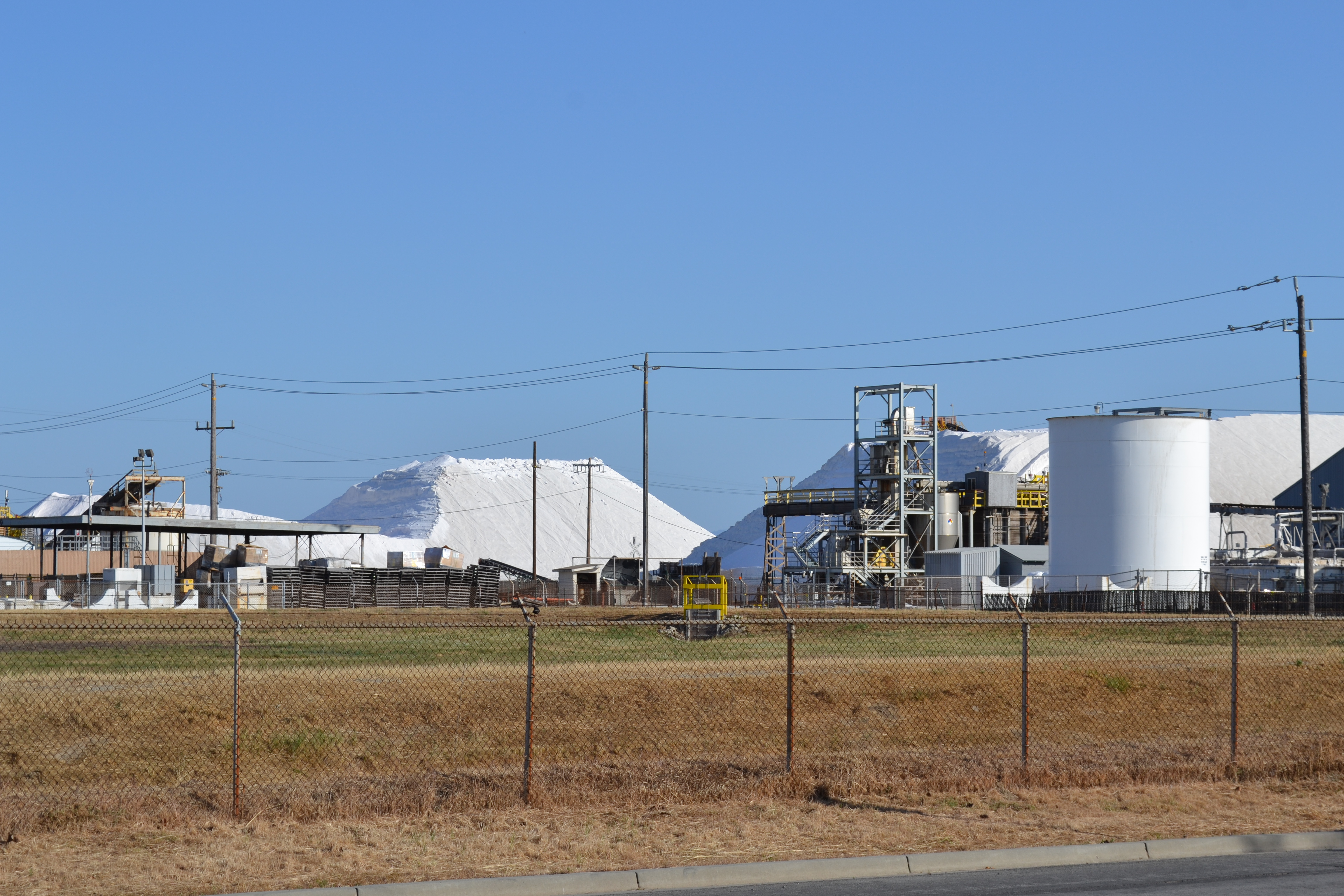 Salt mounds at Morton Salt, 7380 Morton Avenue Newark, CA